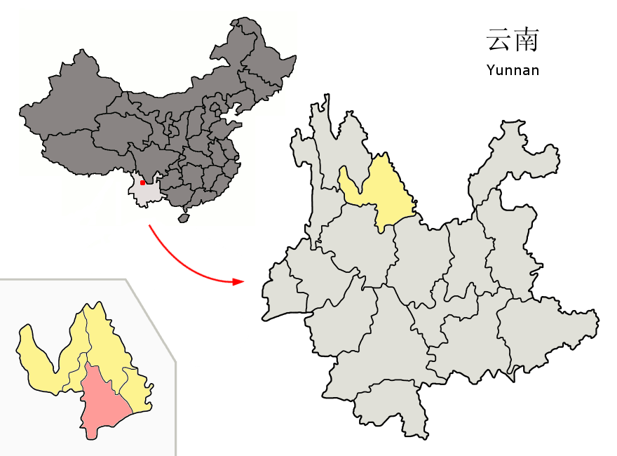 Location of Yongsheng County (pink) and Lijiang prefecture (yellow) within Yunnan province of China Map drawn in september 2007 using various sources, mainly : Yunnan province administrative regions GIS data: 1:1M, County level, 1990 Yunnan Counties map from